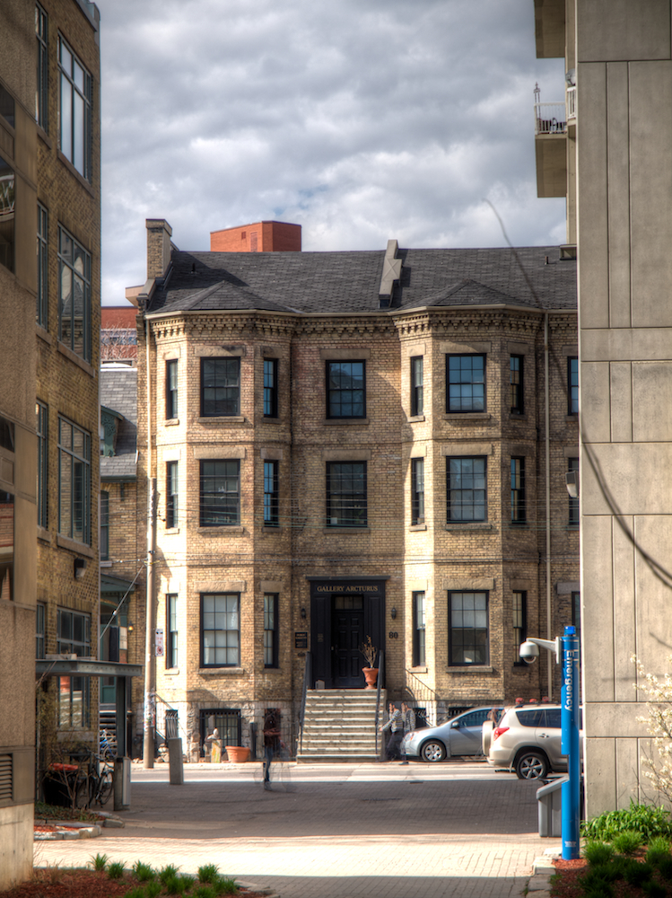 Gallery Arcturus is a public art museum at 80 Gerrard Street East in downtown Toronto, Canada. Structure dates from 1850s.